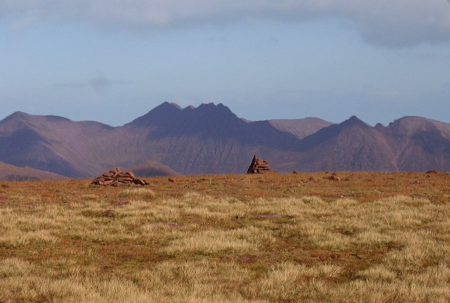 An Teallach from A'Mhaighdean Looking NW towards An Teallachfrom the small plateau just north from the summit of A'Mhaighdean.